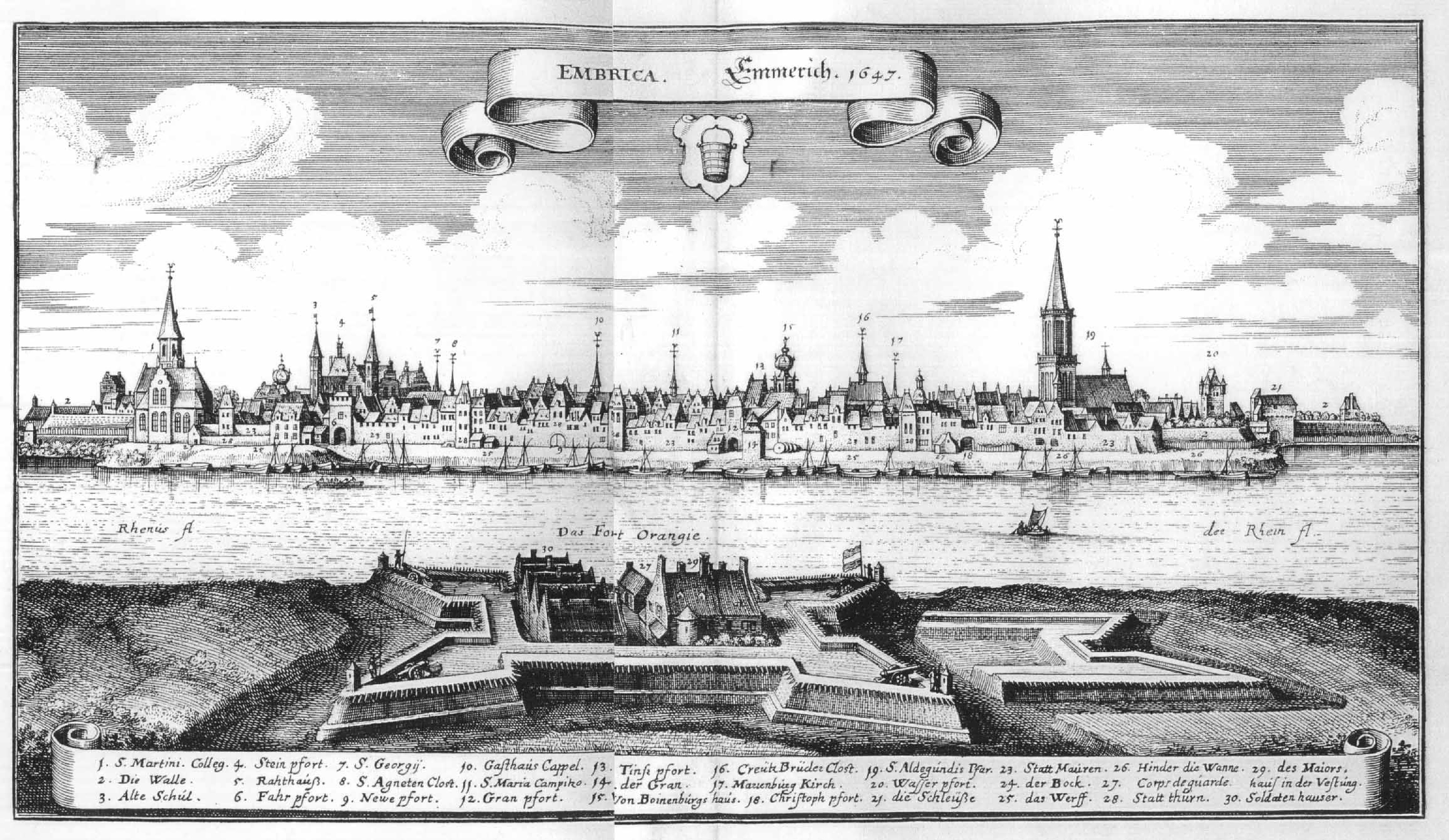 This is a scan of the historical document